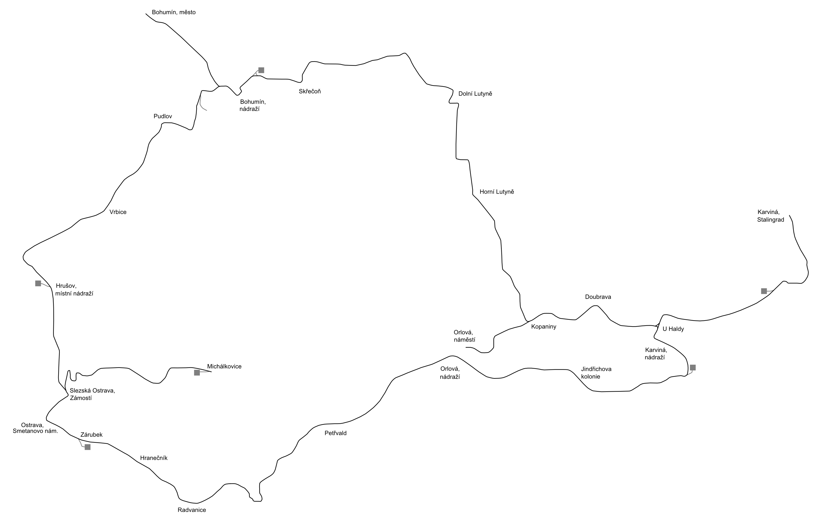 Suburban tram network among Ostrava, Karviná and Bohumín (situation at July 1st, 1953), Czech Republic